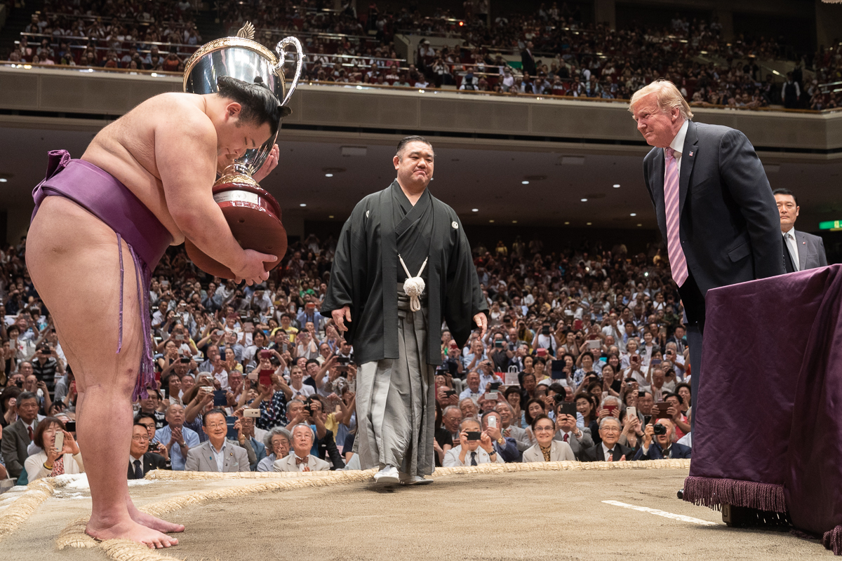 President Donald J. Trump, joined by Japan Prime Minister Shinzo Abe, attends the Sumo Grand Championship Sunday, May 27, 2019, and the presentation of the President’s Trophy at the cultural event at the Ryōgoku Kokugikan Stadium in Tokyo. (Official White House Phoito by Shealah Craighead)